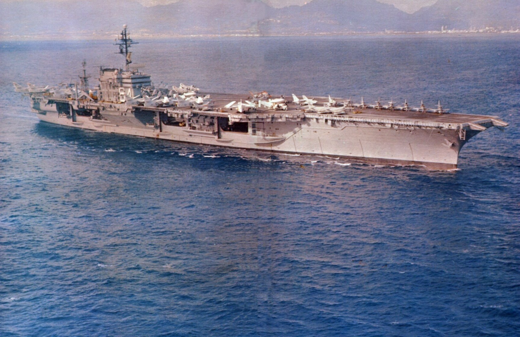 The U.S. Navy aircraft carrier USS Constellation (CVA-64) with aircraft of Attack Carrier Air Wing 14 (CVW-14) on deck during the carrier's deployment to the Western Pacific and Vietnam from 5 May 1964 to 1 February 1965. Note that she still carries the SPS-8A radar on her radar mast.